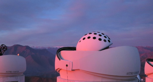 The southern site of the Evryscope survey at Cerro Tololo Inter-American Observatory.